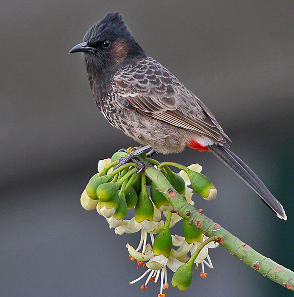 Red-vented Bulbul Pycnonotus cafer in Kolkata, West Bengal, India.